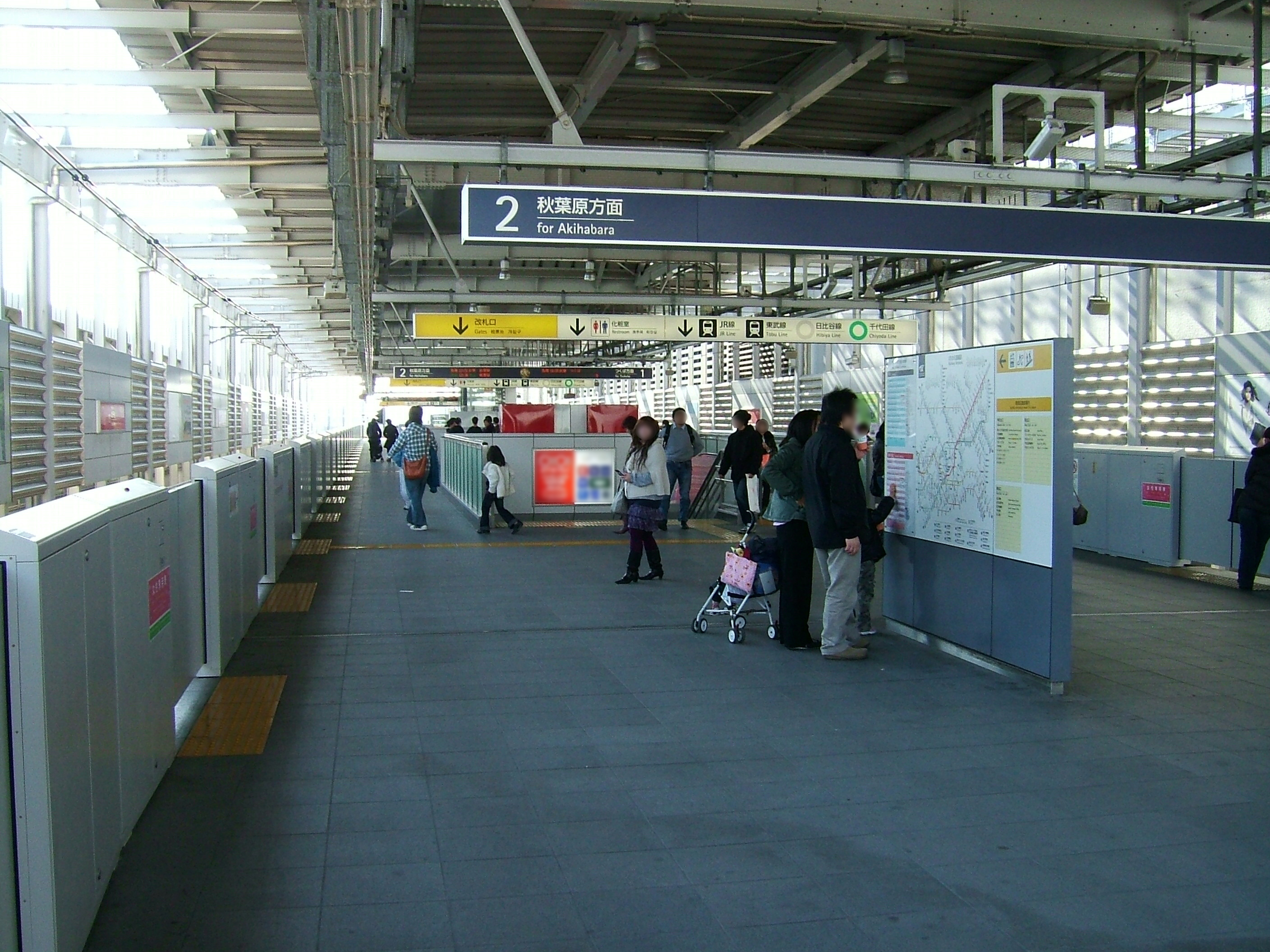 Kita-Senju Station platform (Tsukuba Express)